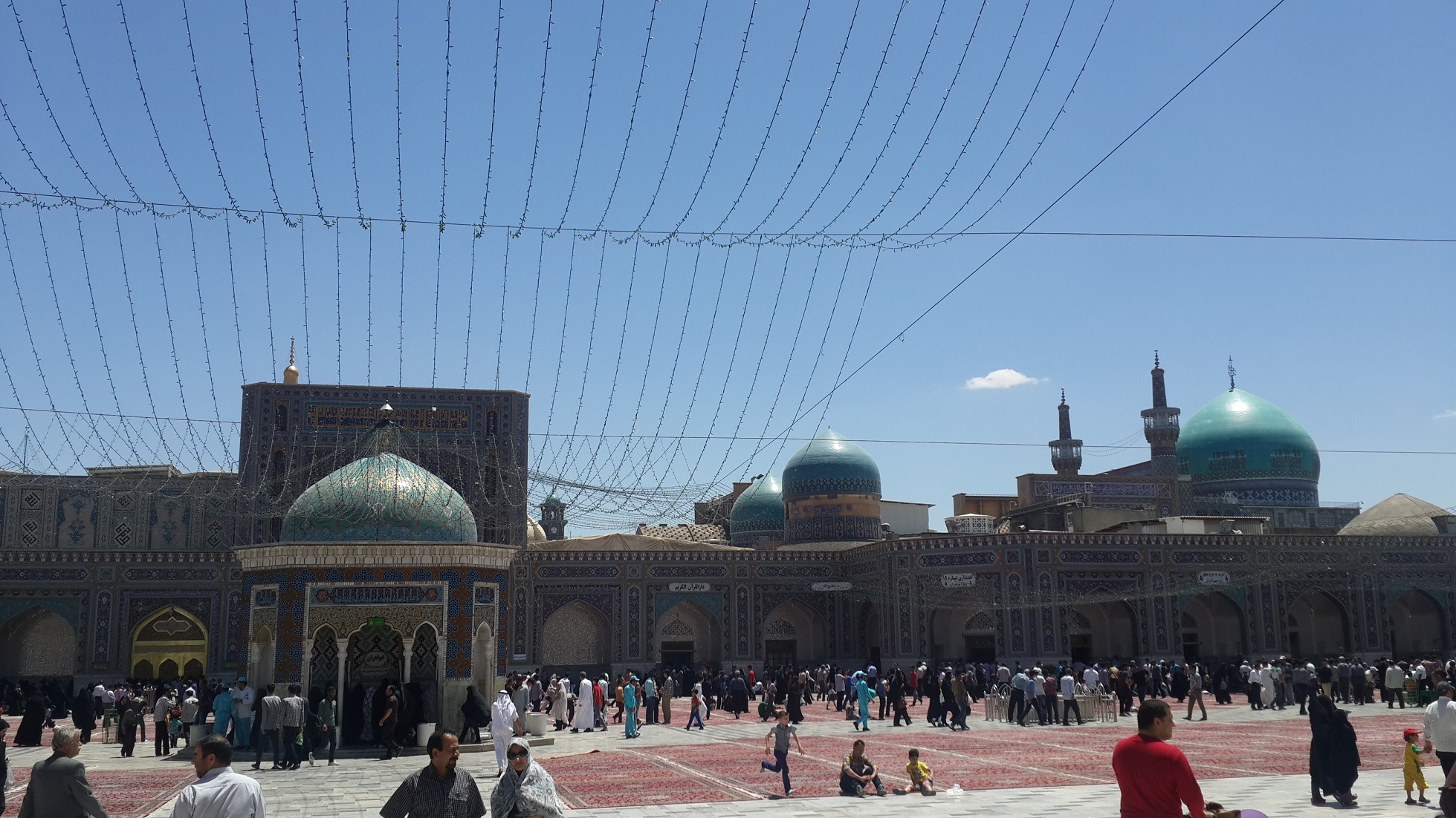 Imam Reza shrine